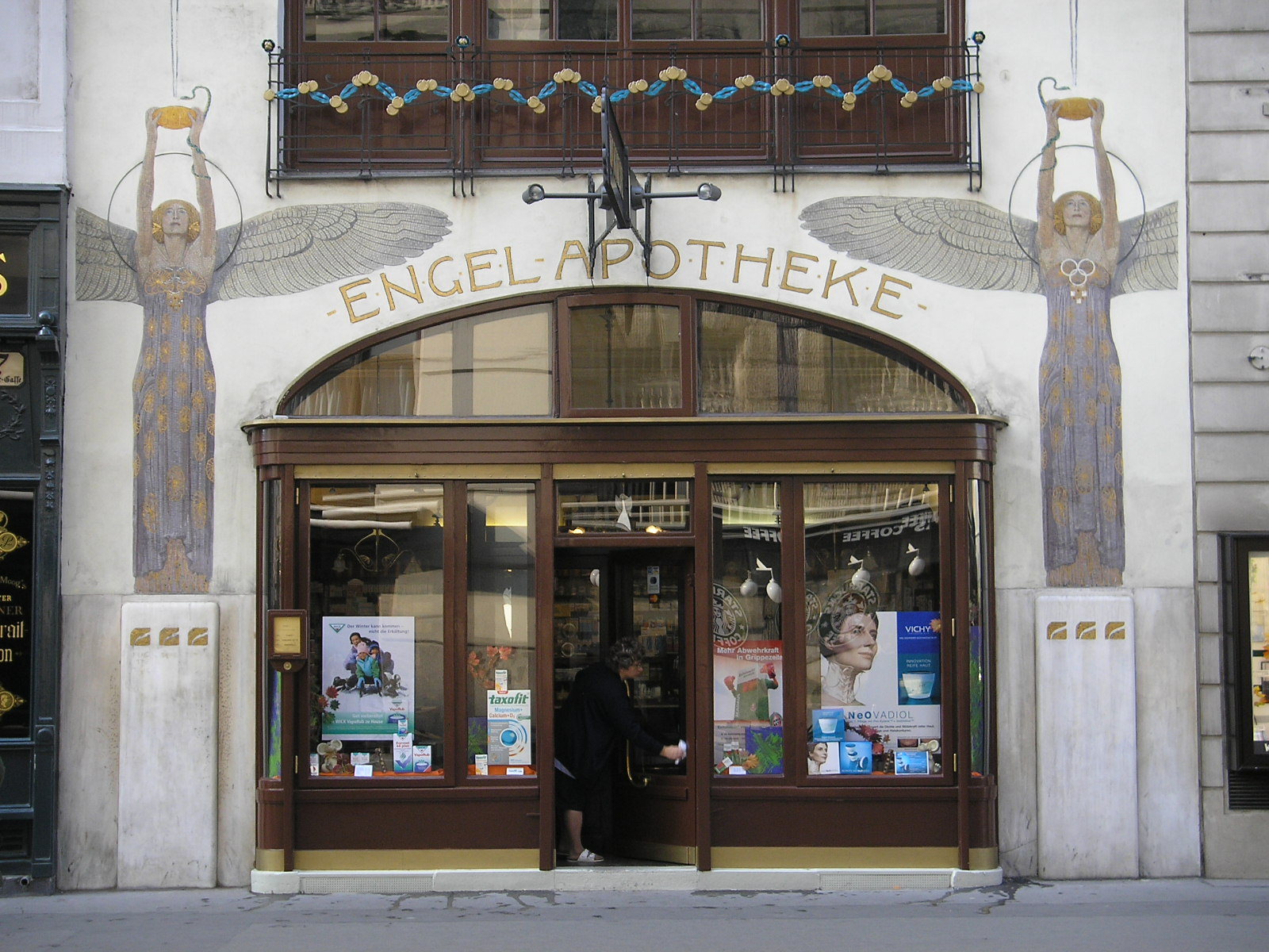 Facade of the drug store "Apotheke zum weißen Engel" in Vienna's first district Innere Stadt.